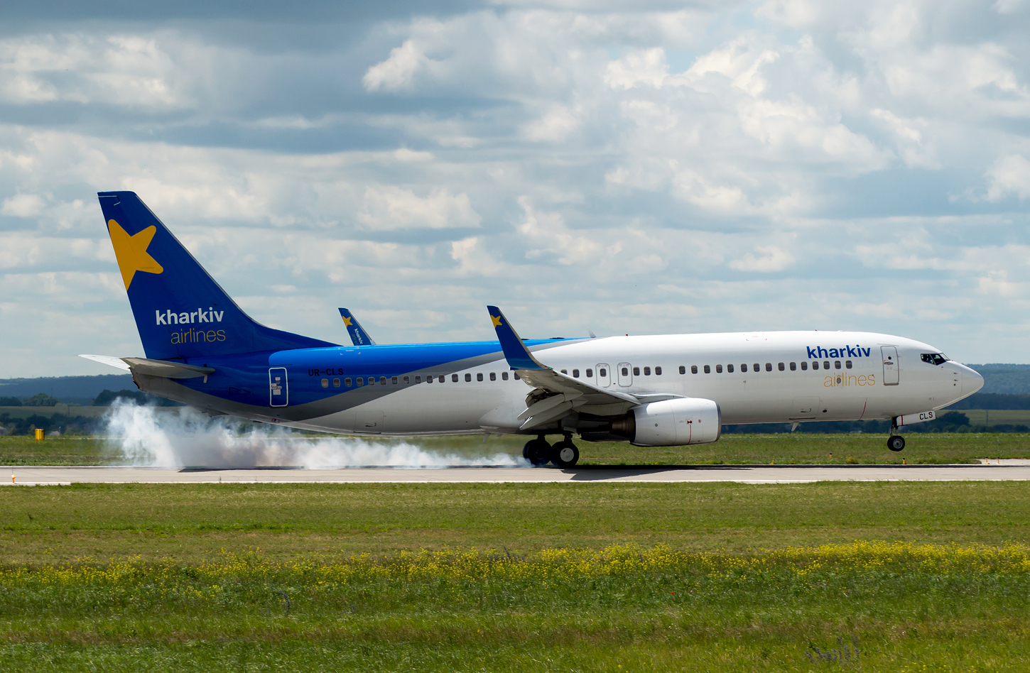 Kharkiv Airlines Boeing 737-800 landing at Kharkiv Airport